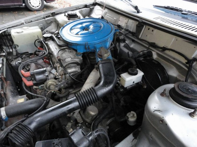 Mazda FE engine in a 1983 Mazda 626 2.0 Coupé automatic.